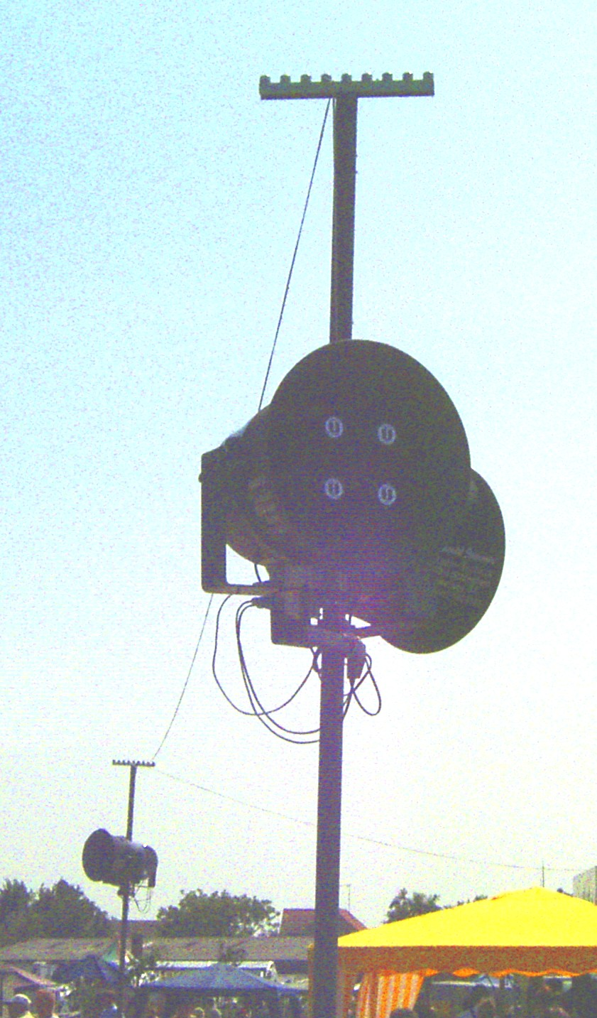 Public address speakers. Each speaker is composed of 4 smaller horns